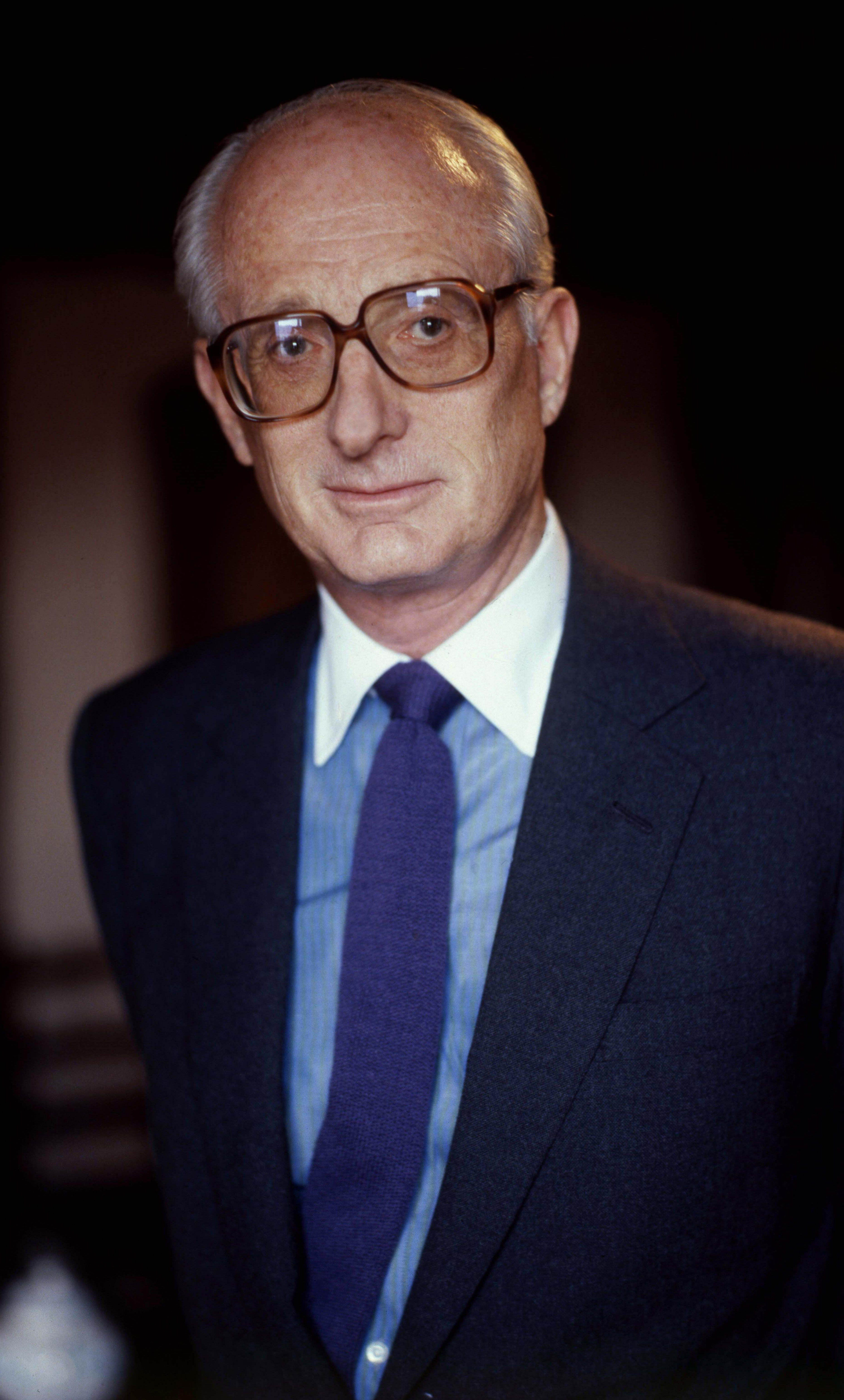 John Russell the 13th Duke of Bedford